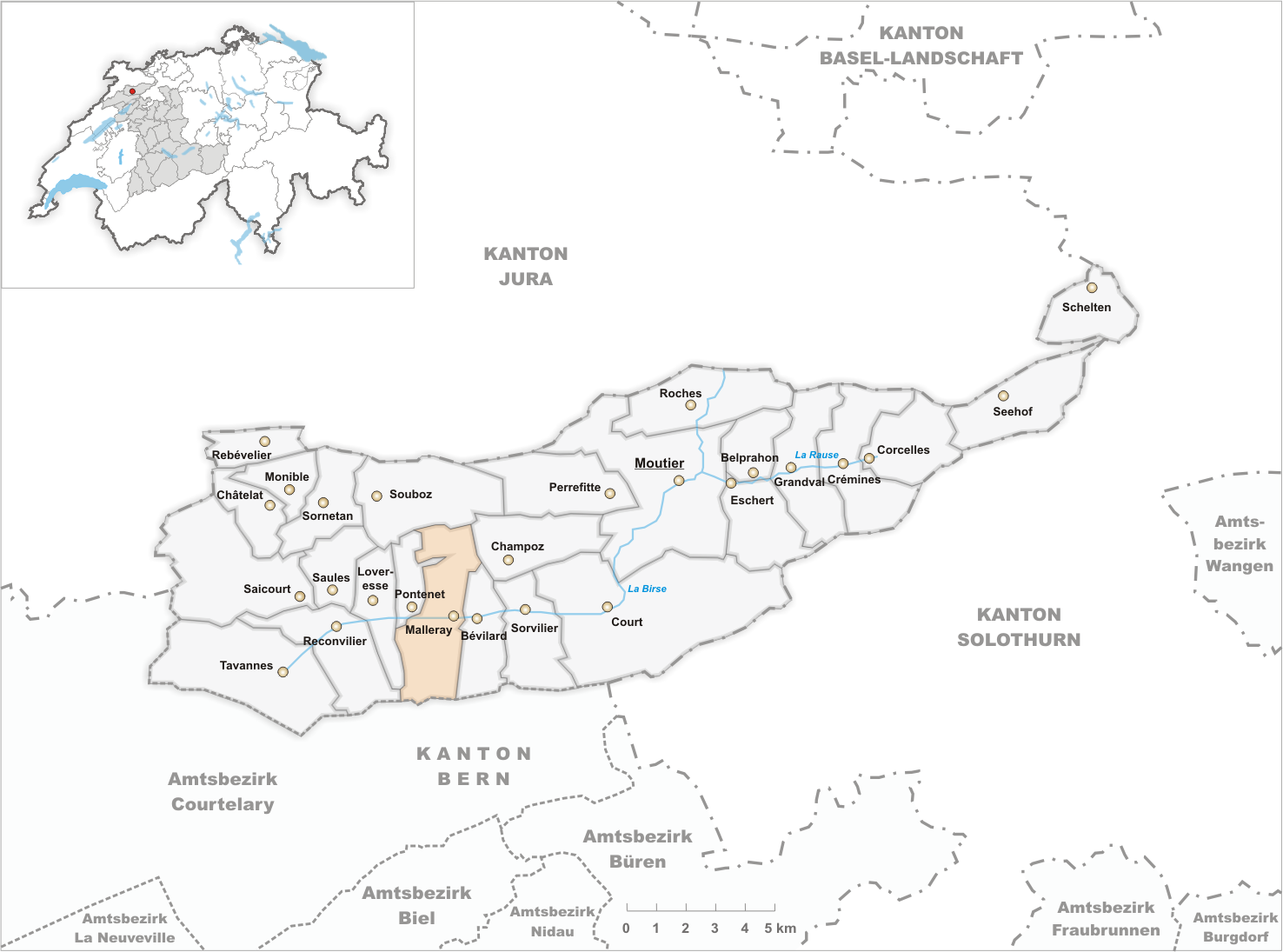 Municipality Malleray